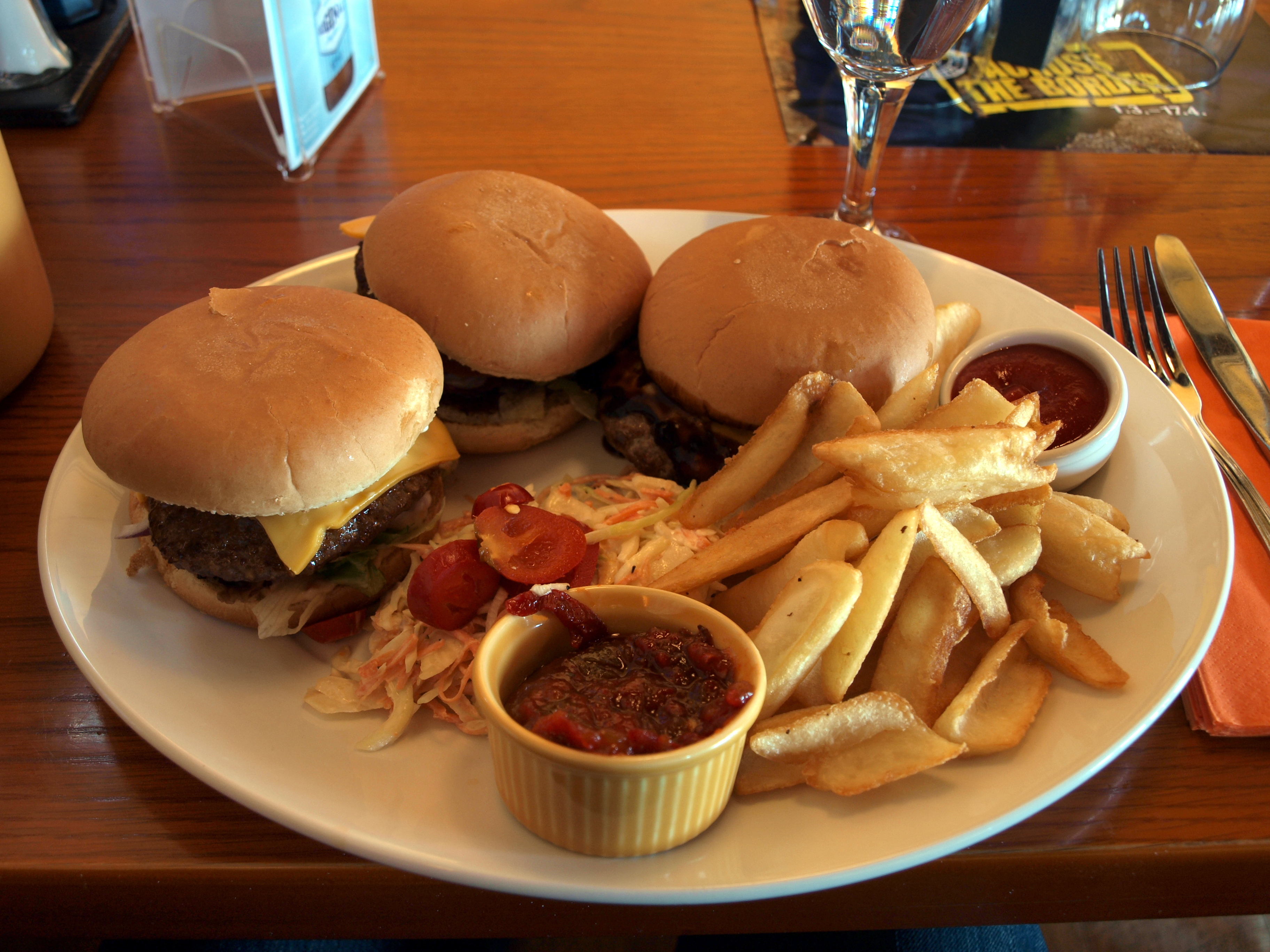 A restaurant dish consisting of smaller versions of three different hamburgers (sliders) available in the restaurant, each with different toppings, accompanied with French fries, coleslaw, jalapeños, ketchup and sweet chili sauce.